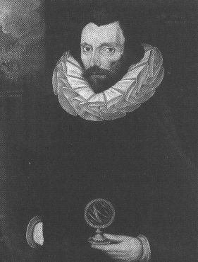 Henry Howard, 1st Earl of Northampton (1540-1614)